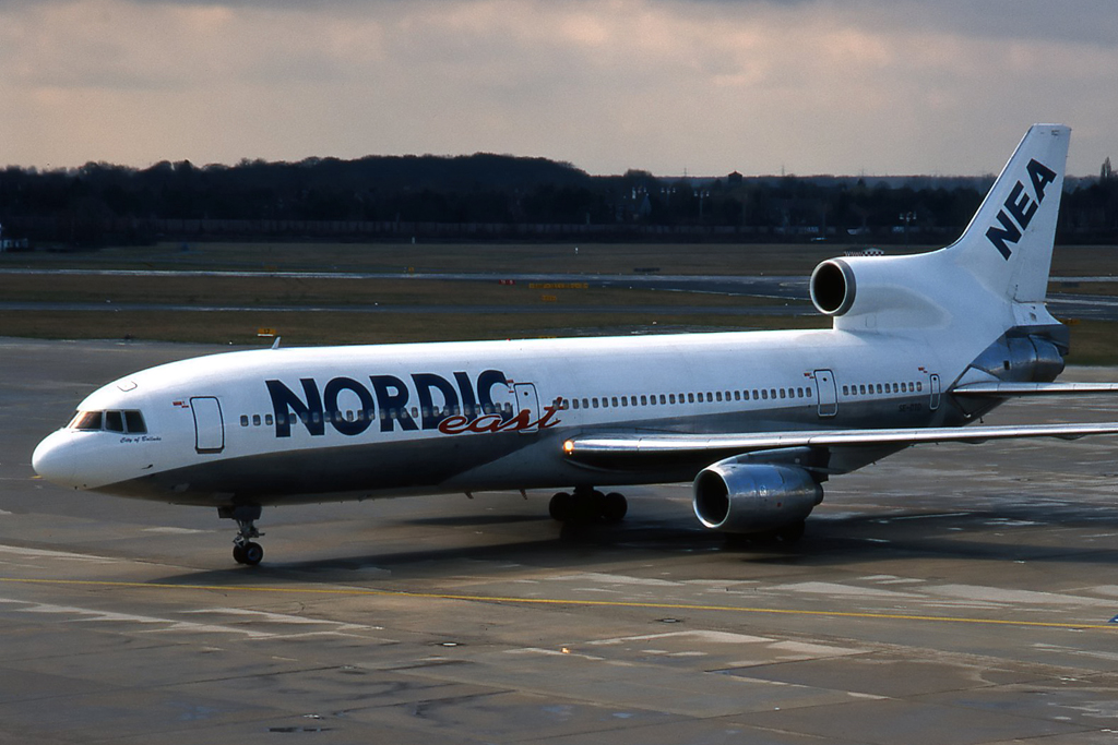 SE-DTD L1011 Nordic East eddl 1996